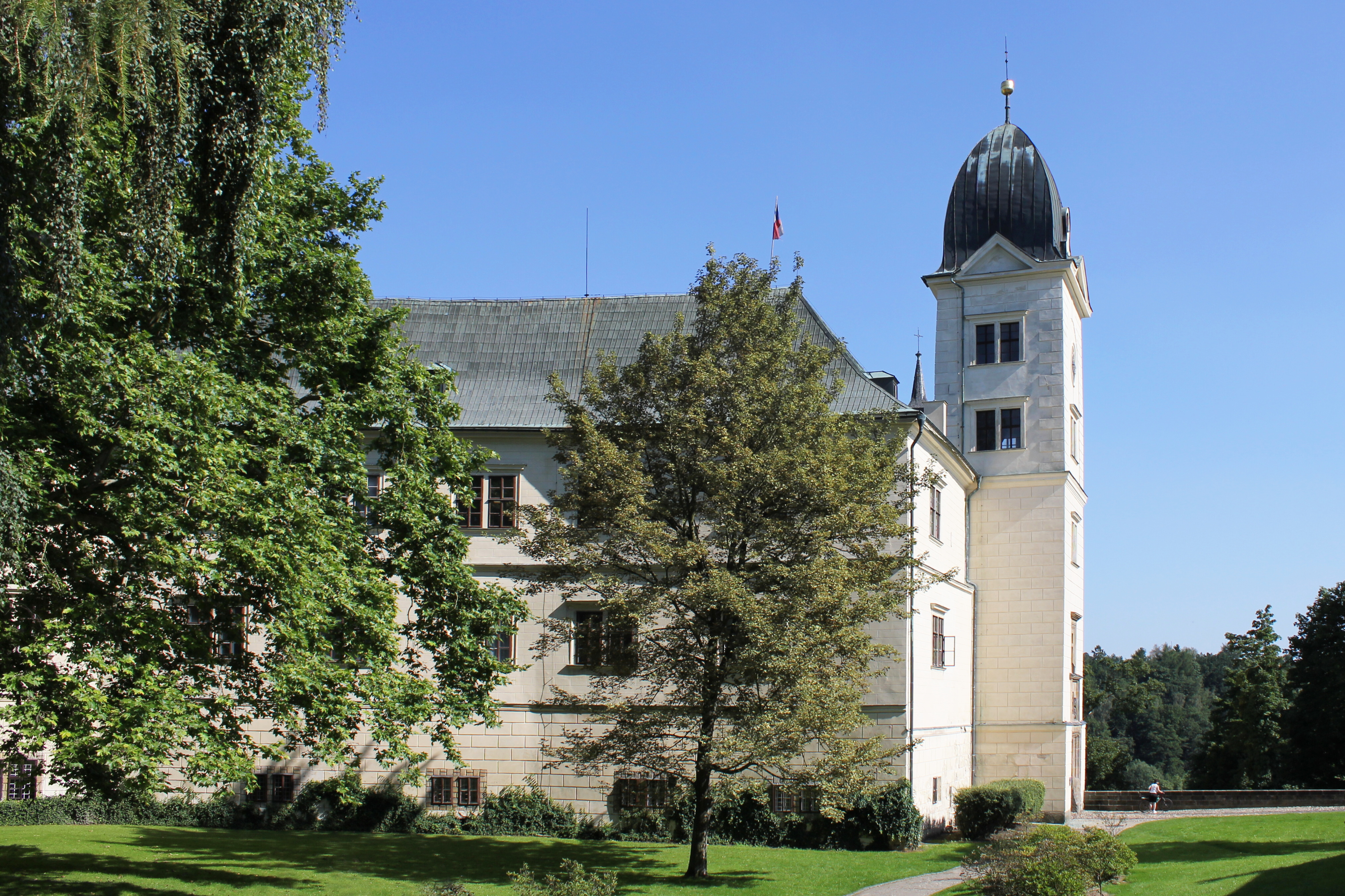 Hrubý Rohozec castle